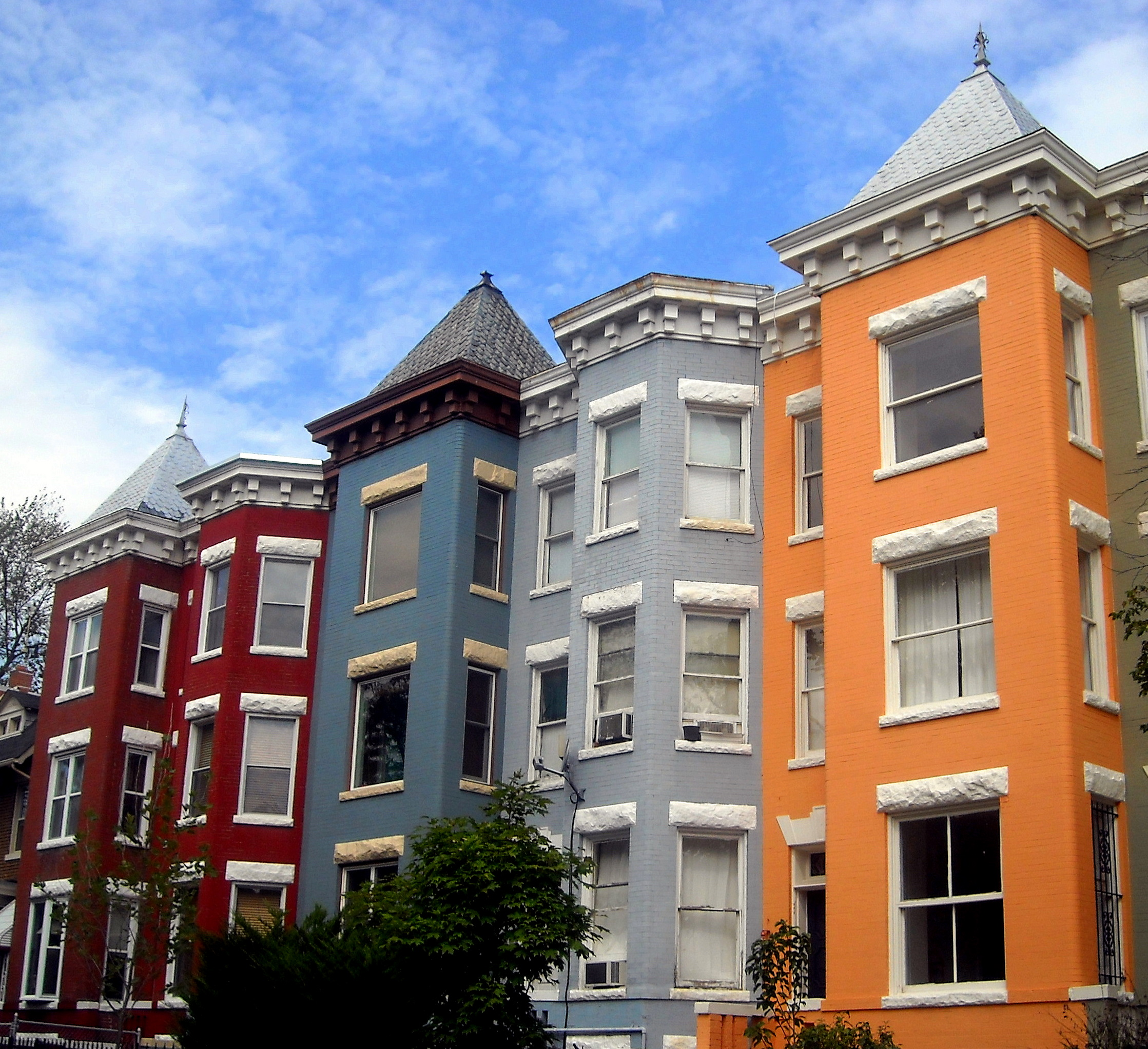 The 1800 block of Newton Street, NW in the Mount Pleasant neighborhood of Washington, D.C. Built in 1908, the Victorian row homes are contributing properties to the Mount Pleasant Historic District.